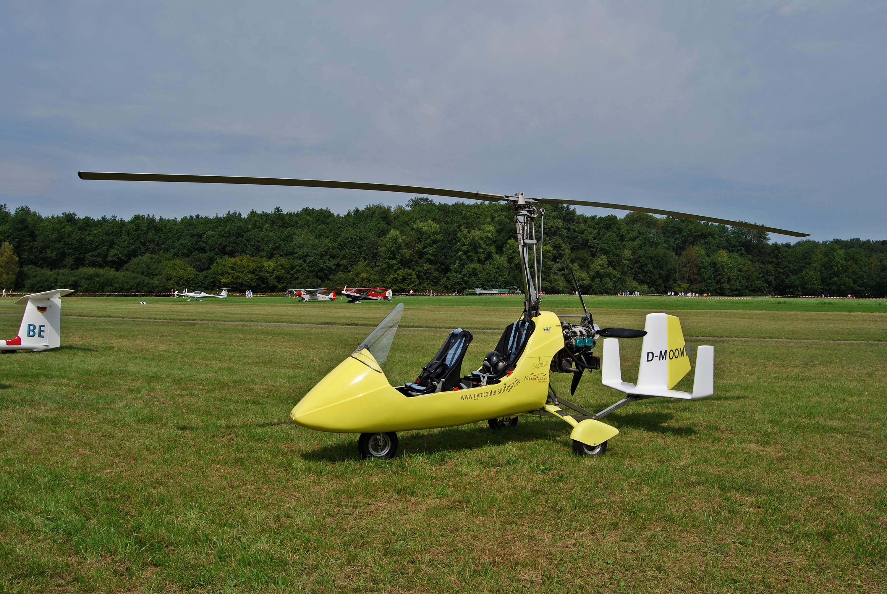 A gyrocopter at Löchgau, Baden-Württemberg.